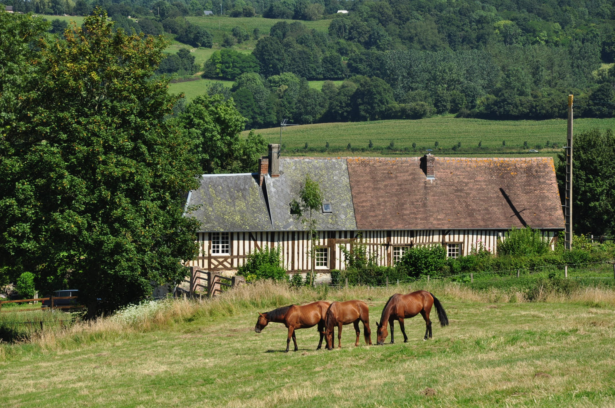 Landscape in Auquainville (Calvados department, Normandy, France). The farm shown was part of the municipality of Saint-Aubin, which was abolished and incorporated into Auquainville in 1831.